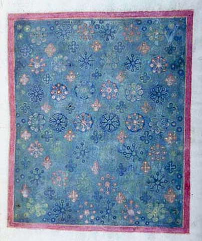 Morgan Library Lindau Gospels, f 12r, page imitating textile